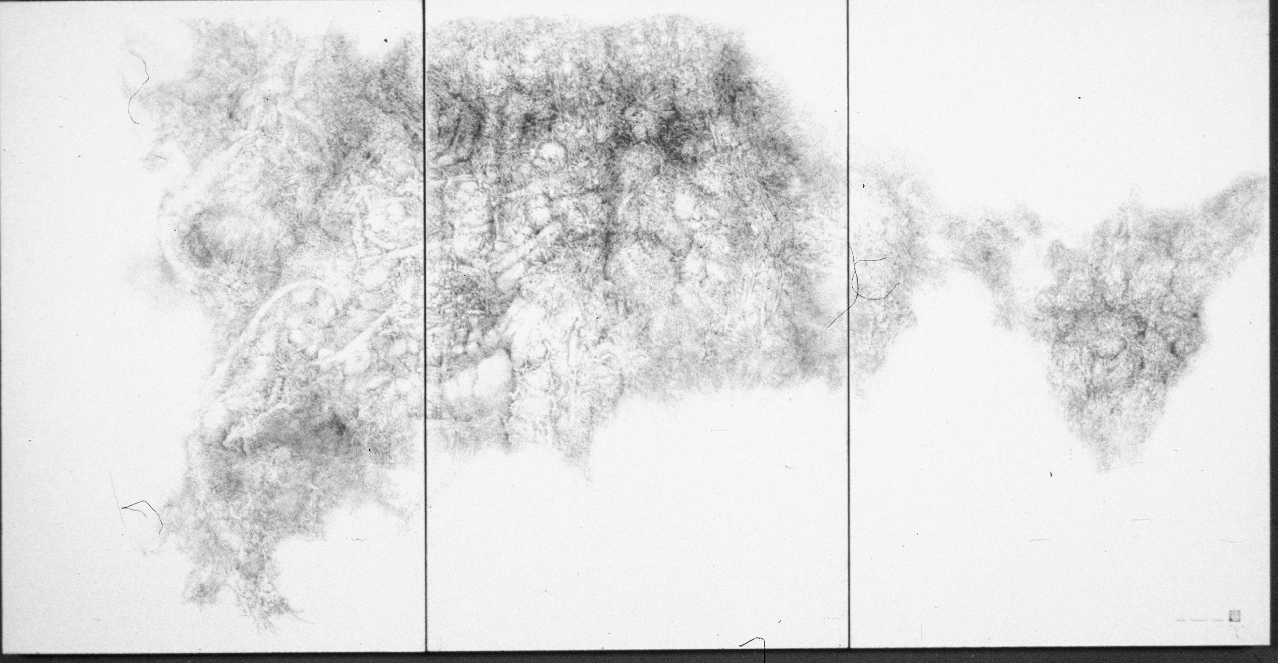 Dear Flower Series, No. 8, Byoobu, Pen-and-ink with wash. Overall 40: high x 66" wide.